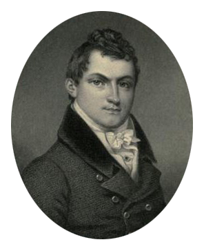 Portrait of John Stockdale Hardy (1793–1849), English legal practitioner known as an antiquary.